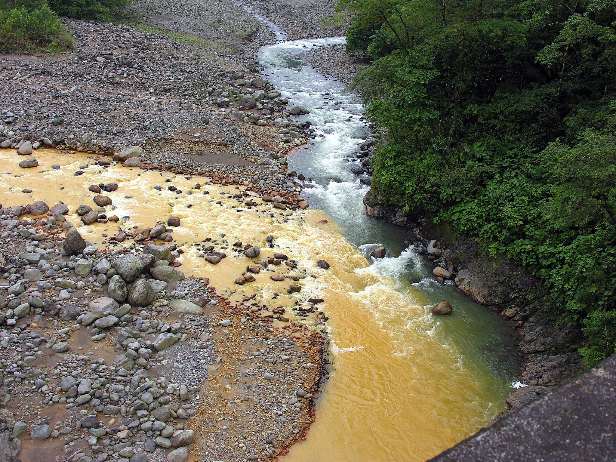 River in Braulio Carrillo National Park